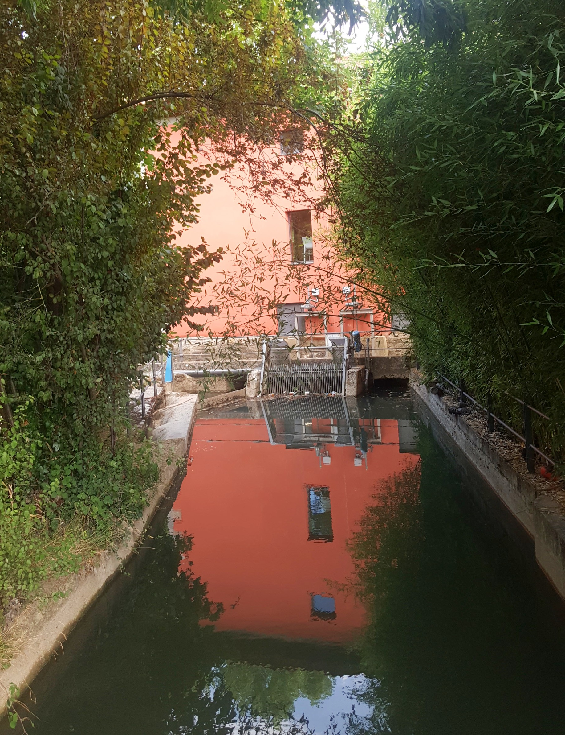 Mill of San Andres in Atarrabia-Villava (Navarre). Water inlet